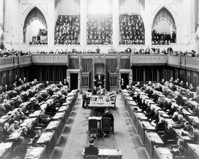 Canadian House of Commons in session